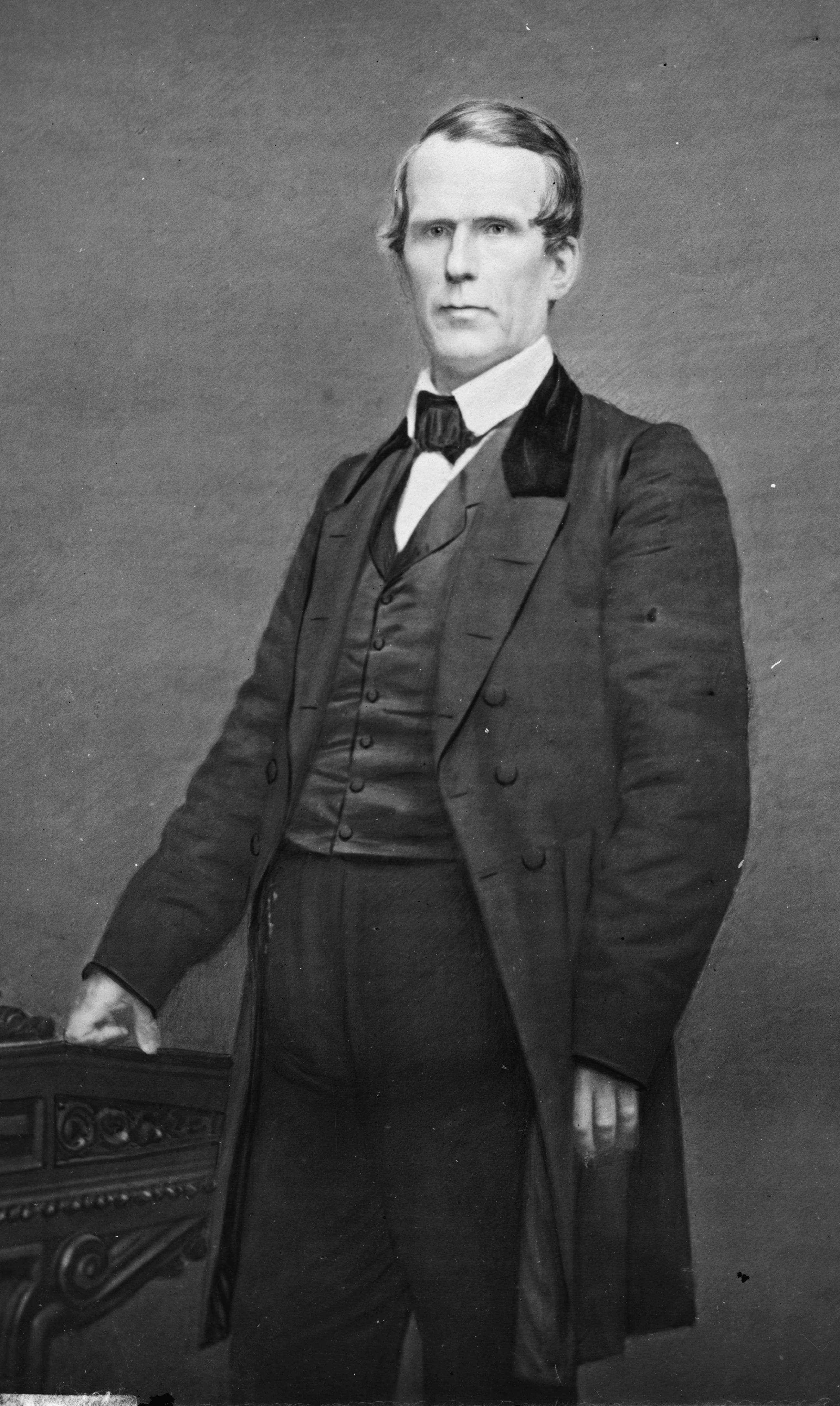 Thomas Amos Rogers Nelson. Library of Congress description: "Hon. Thomas A. R. Nelson of Tenn."